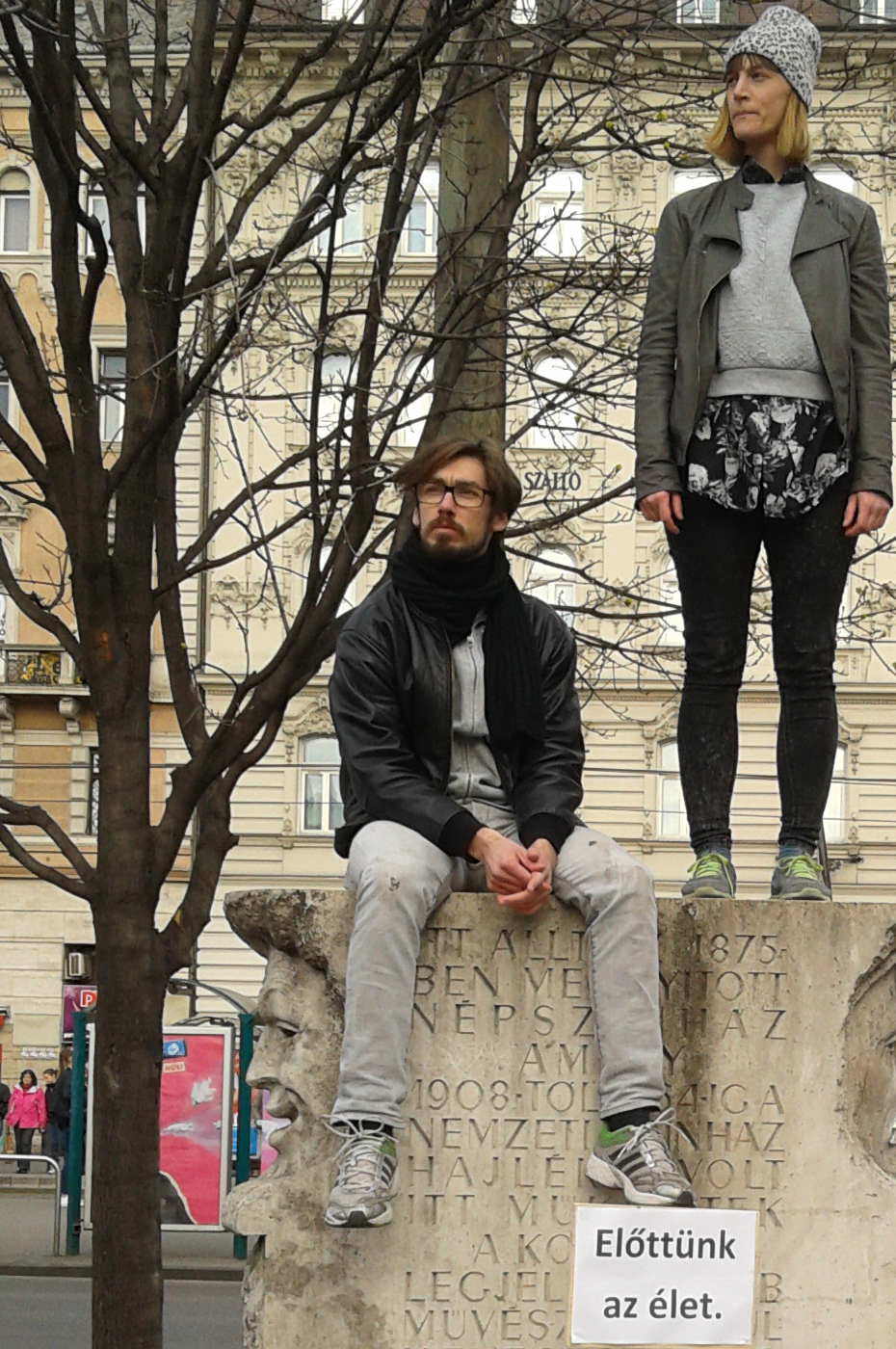 Zsófia Vadas and Imre Vass dance artists in a walk-by performance ar former "Home" of the Nemzeti Színház, Budapest